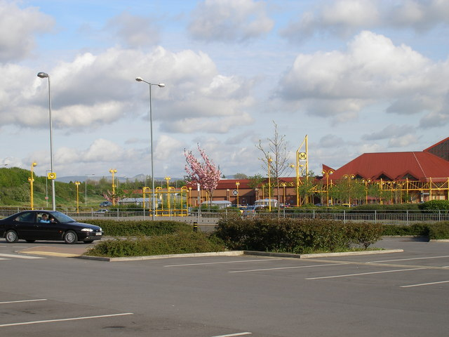 Teesside Retail Park with The Cleveland Hills beyond The retail park has been built on the site of Mandale Marshes Racecourse. Roseberry Topping can be glimpsed between the two tall lampposts.